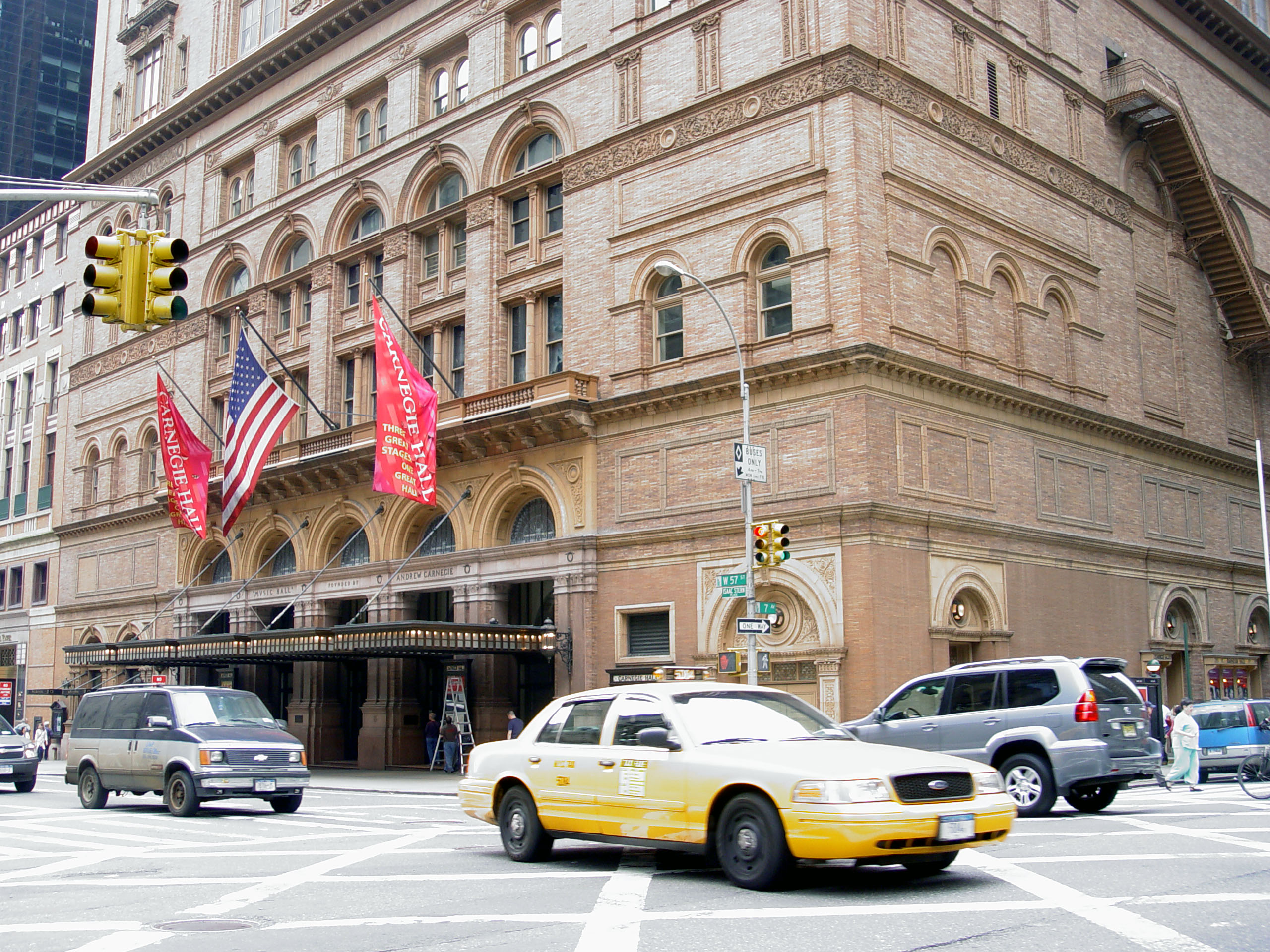 Fotografiert von Martin Dürrschnabel Carnegie Hall in New York City.